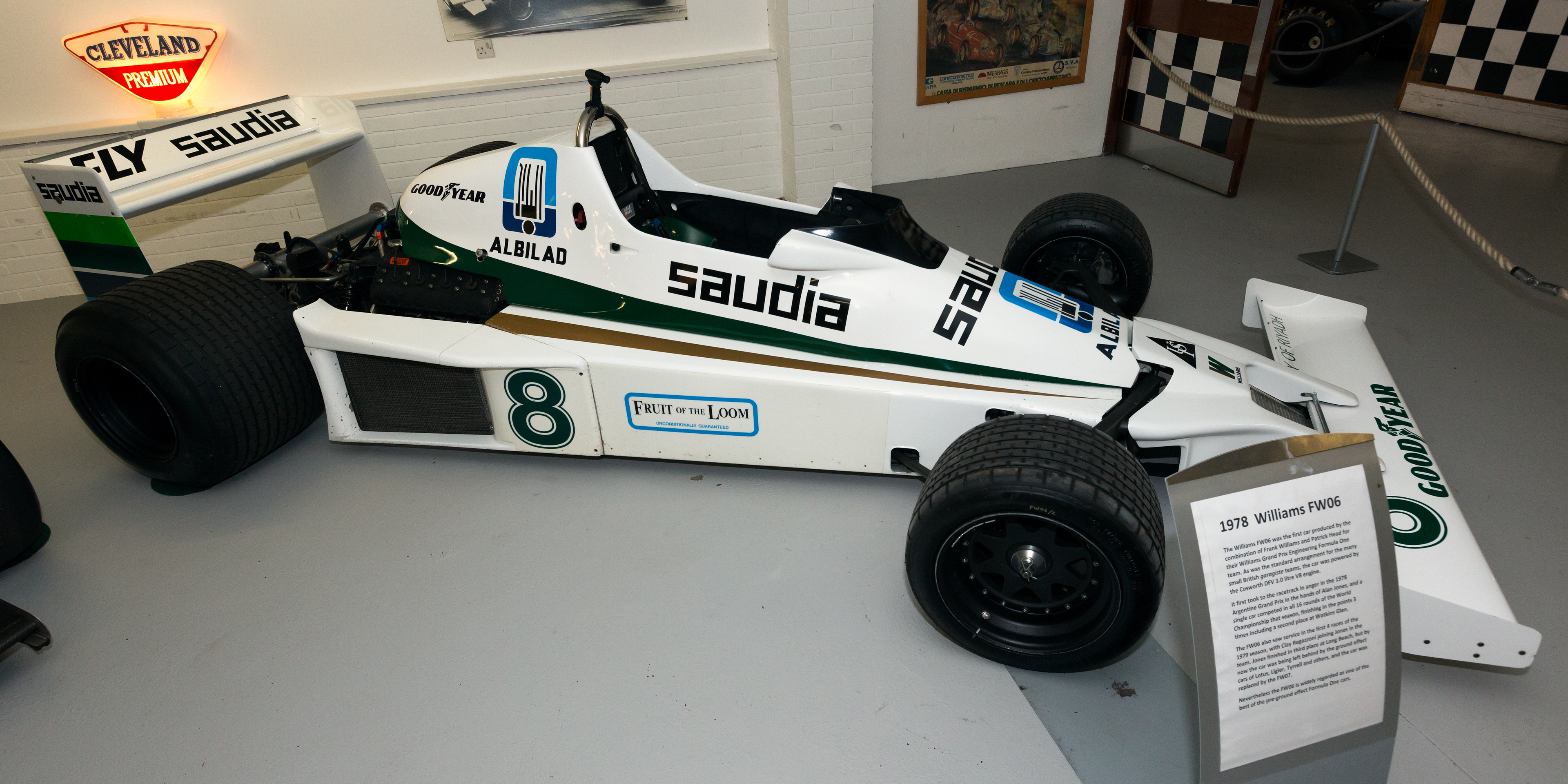 1978-1979 Williams FW06